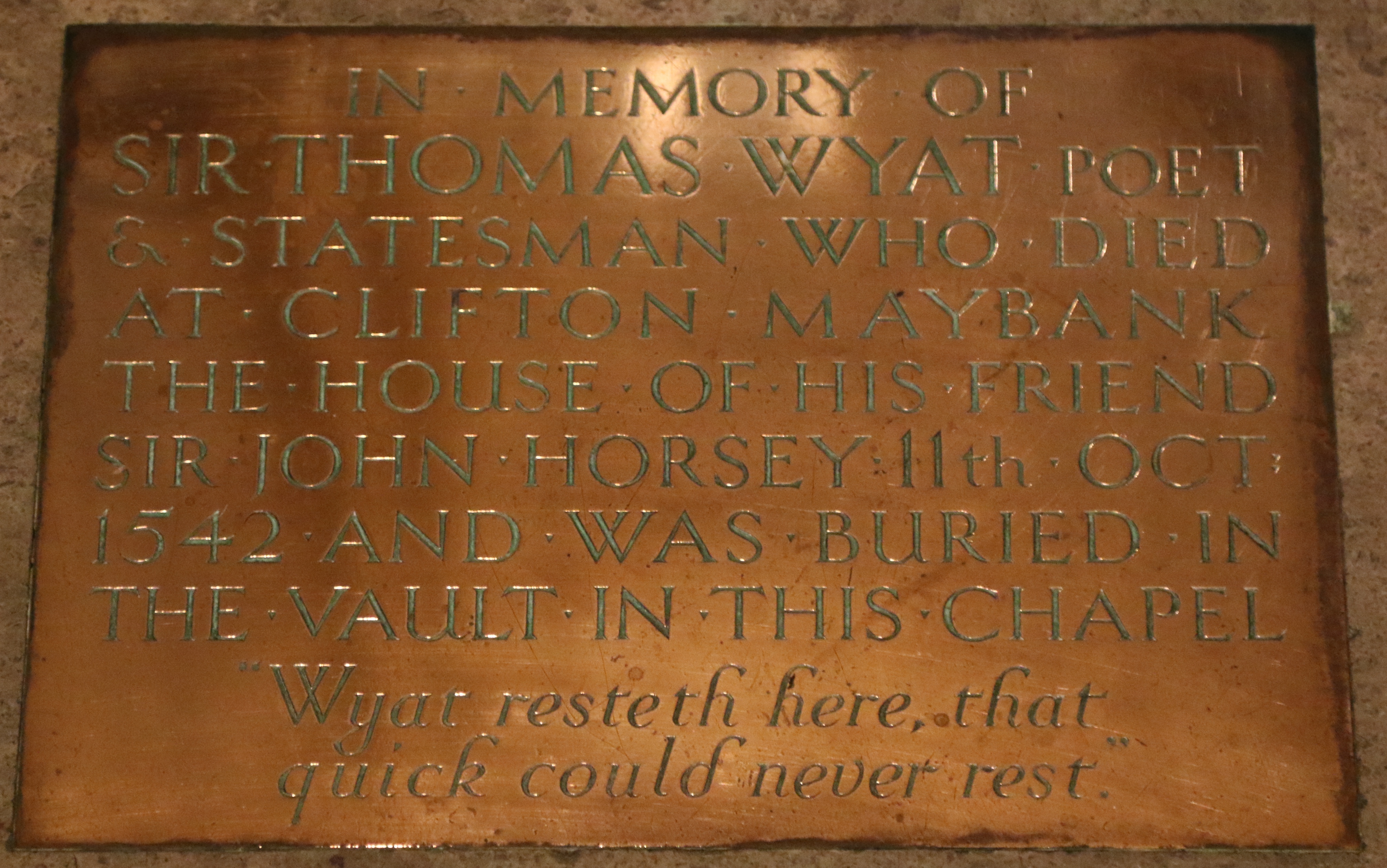 Sir Thomas Wyat, Poet. Died 11 October 1542.